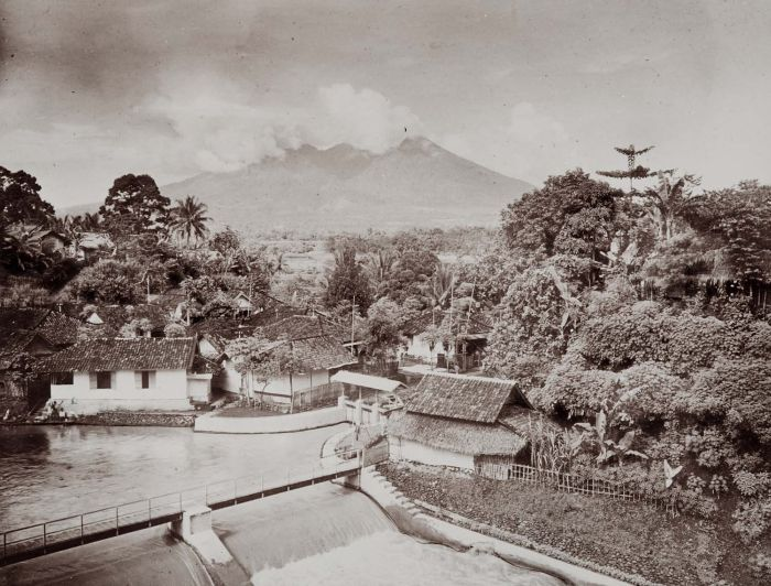 Dam at Pledang and the Salak volcano, Buitenzorg